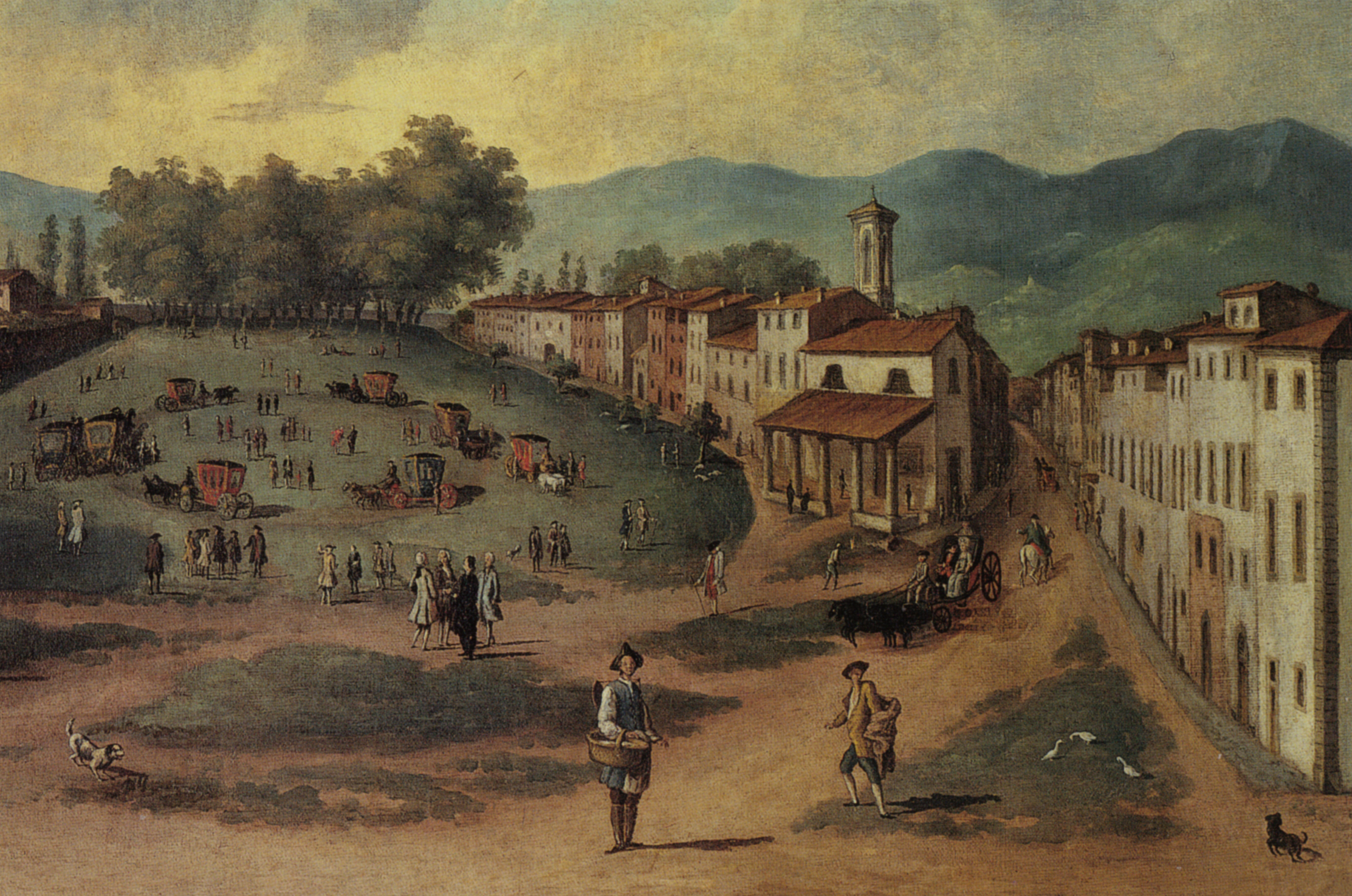 Prato di san francesco (with santa maria maddalena church), painting of XVIII century in Museo Civico, Pistoia